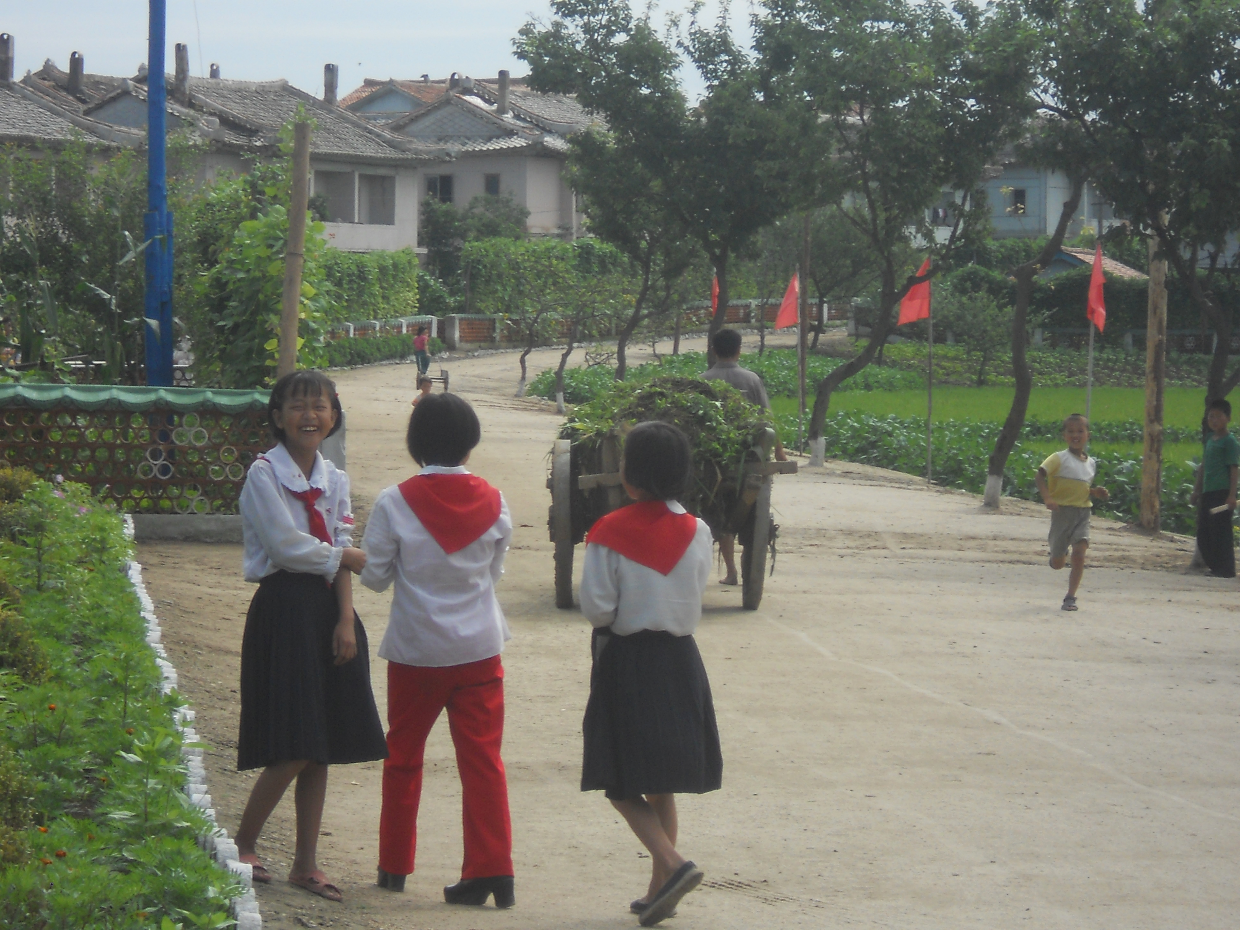 Tongbong Co-operative Farm